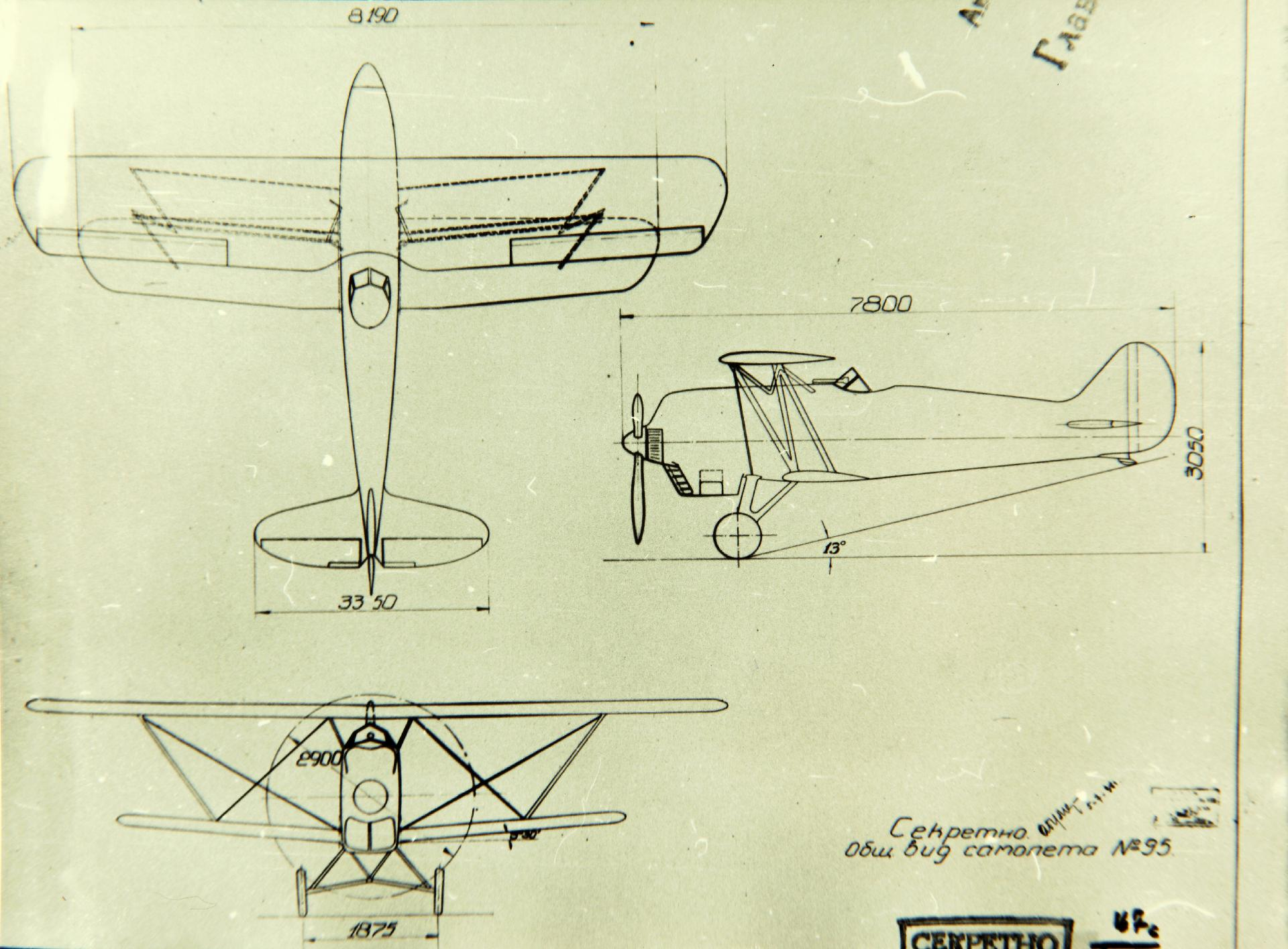 Kawasaki Type95, Ki-10